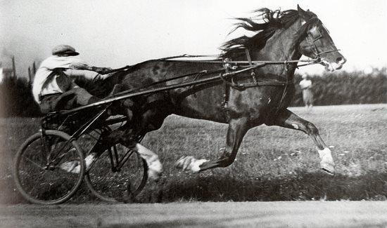 Eri-Aaroni competing in the Kuninkuusravit in Turku